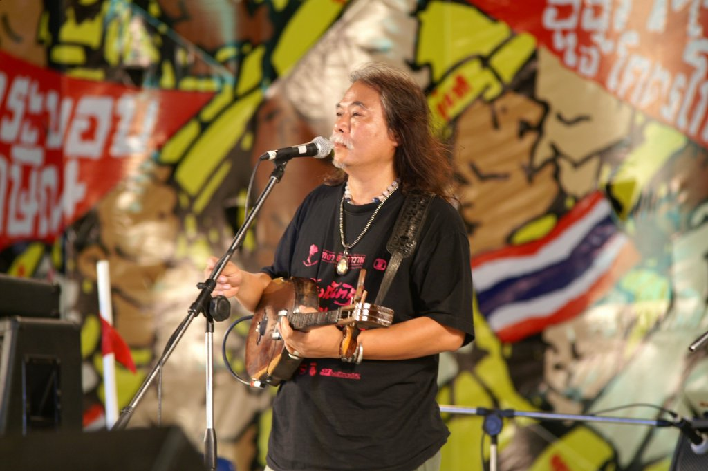 "Wong" Mongkhon Uthok